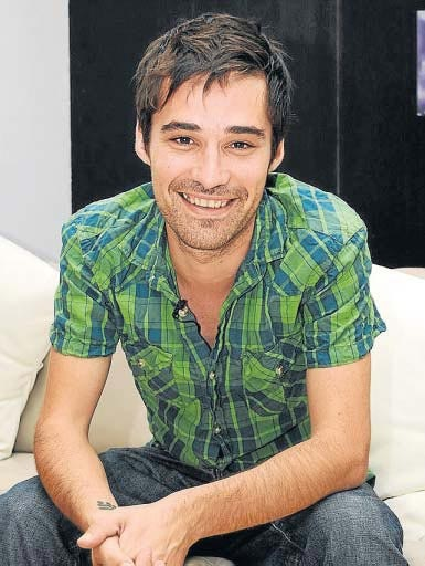 Spanish TV Presenter Jordi Cruz